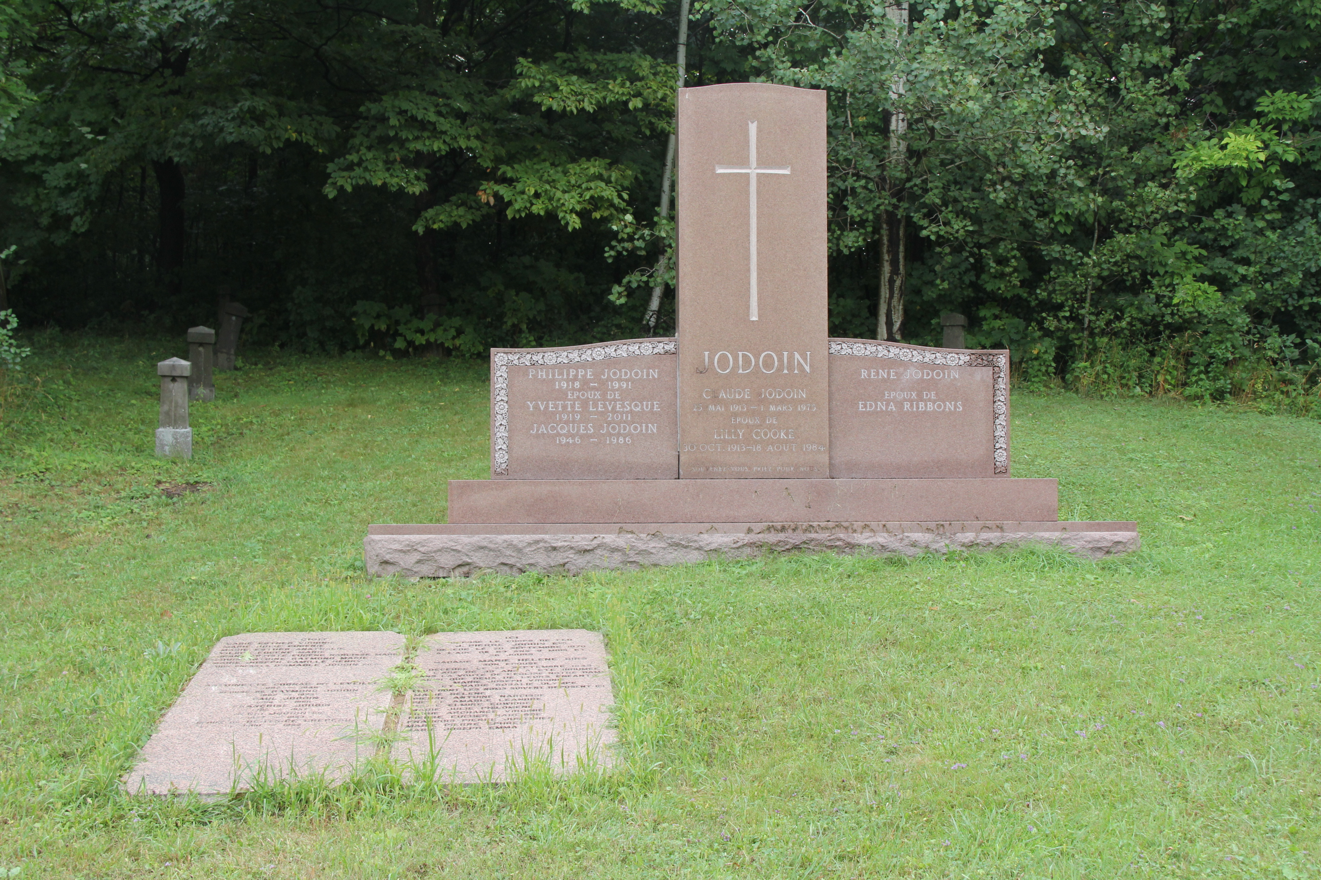 Claude Jodoin’s tombstone, Notre-Dame-des-Neiges Cemetery, Montreal. Pierre Jodoin's name is on the stone that is lying on the ground.